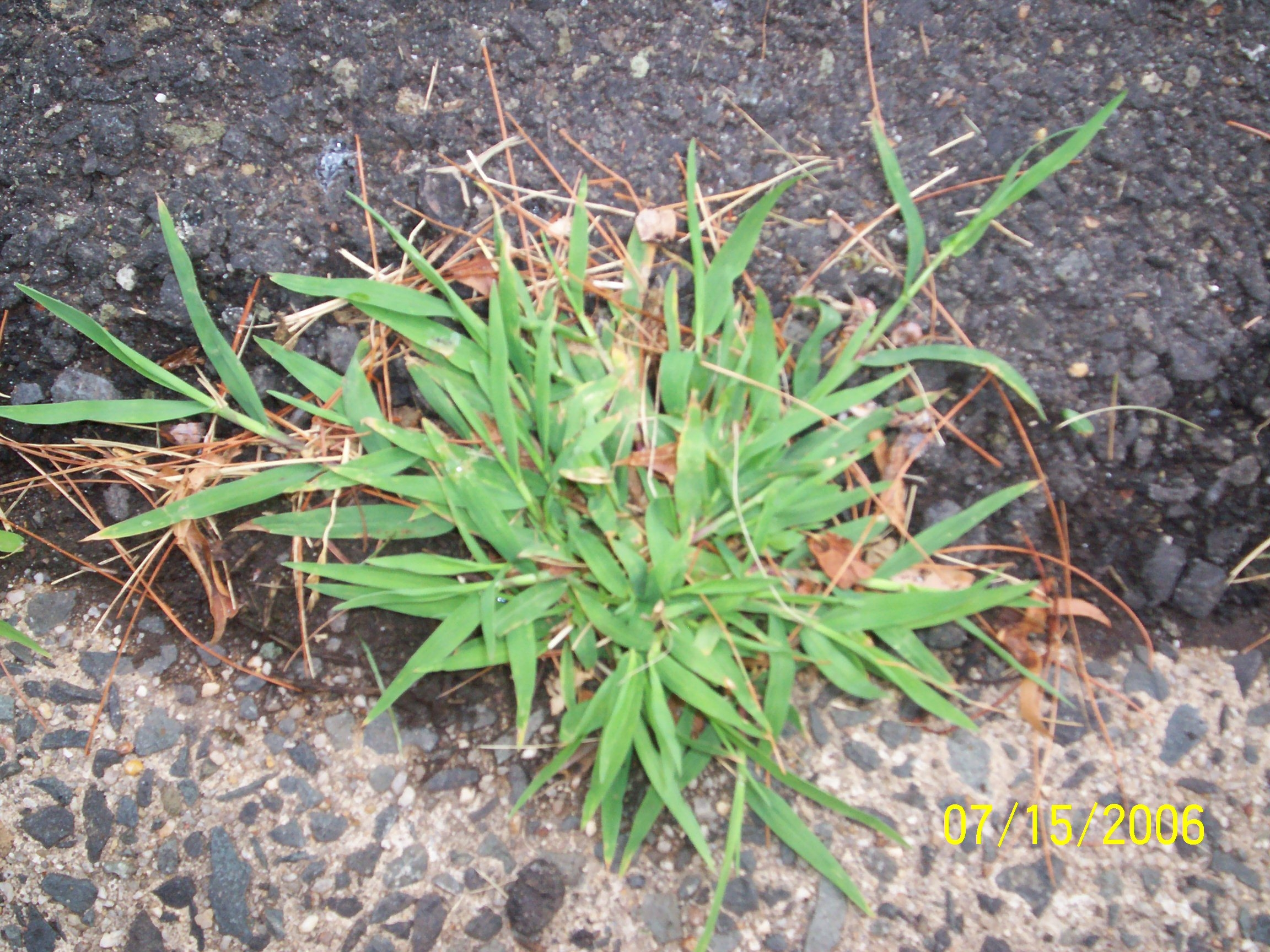 Crabgrass Source Richard Arthur Norton (1958- ) archive